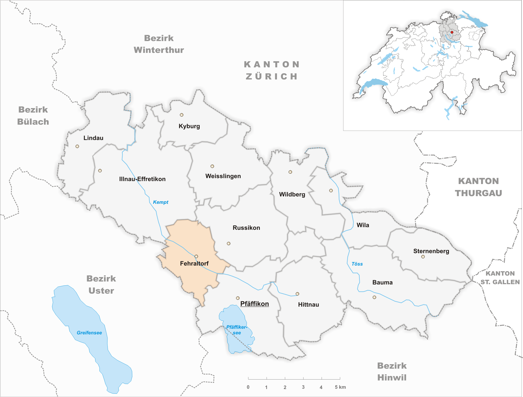 Municipality Fehraltorf